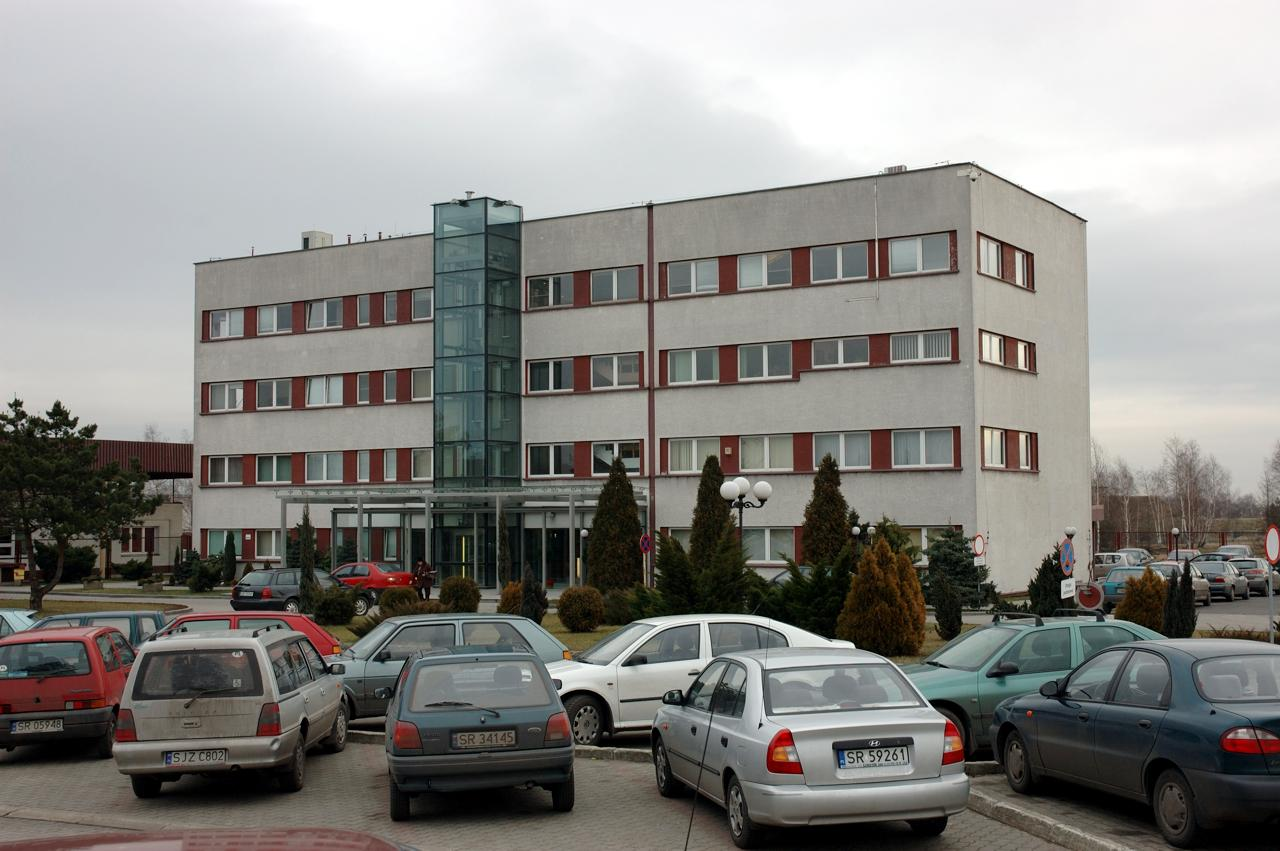 Headquarters of the PTKiGK S.A. railway company at Rybnik-Boguszowice, Poland